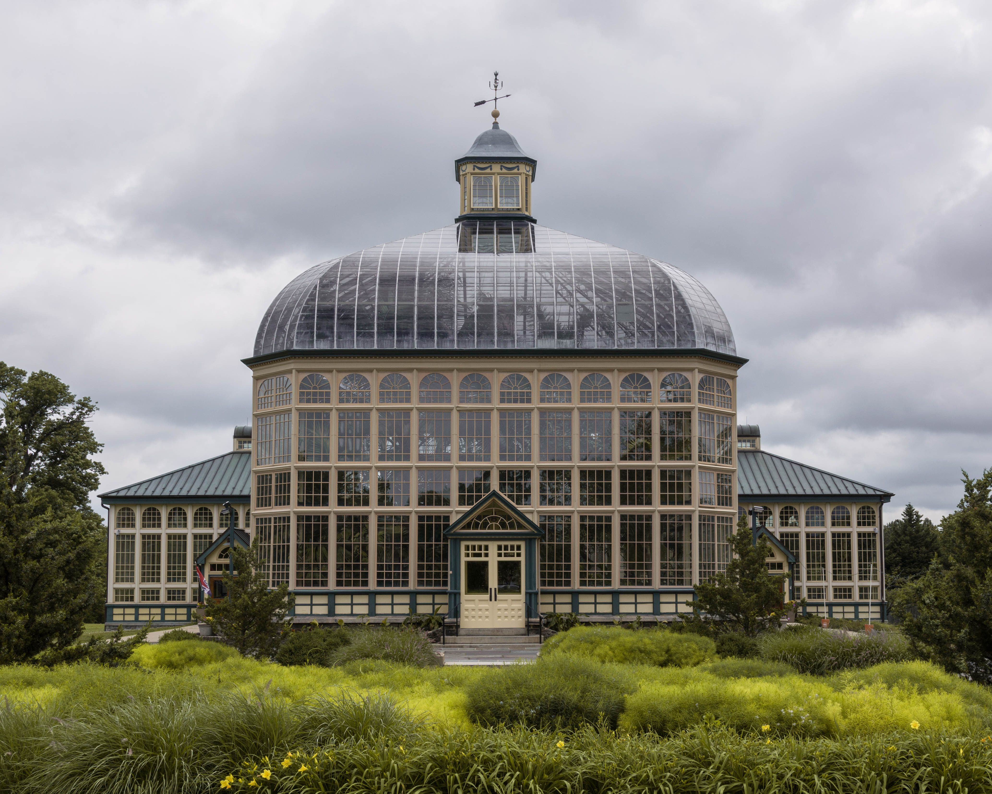 Picture of H.P. Rawlings Conservatory & Botanic Gardens of Baltimore from the front of the front of the building in Druid Hill Park.